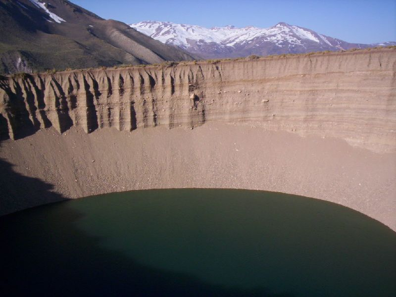 Las Animas Well, located in Malargüe Department to the south of the Mendoza Province, Argentina.Pozo de las animas, Malargue